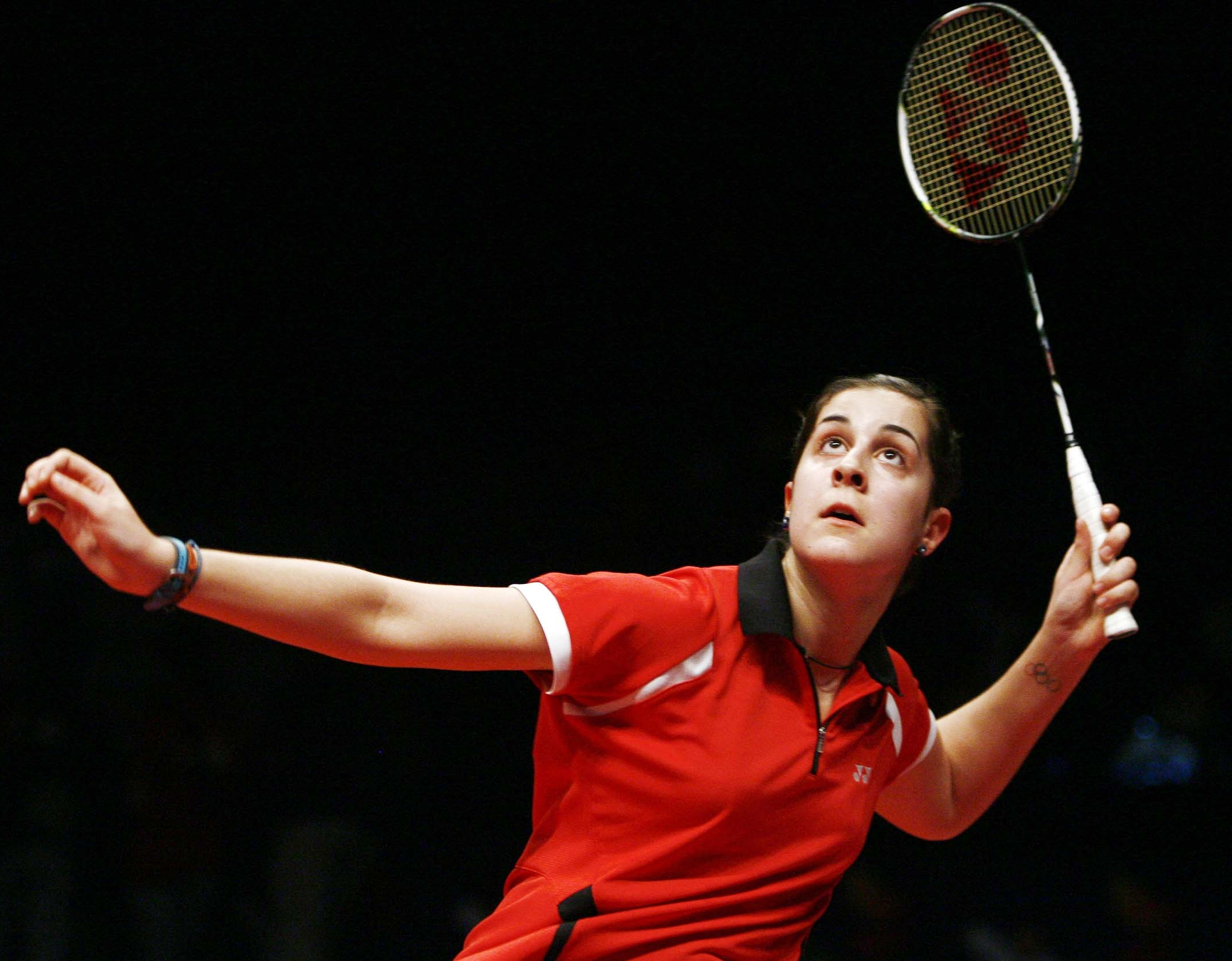 Carolin Marin at 2013 Axiata Cup